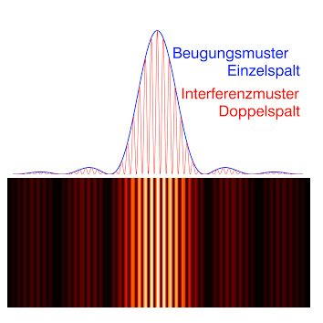 double slit intensity graph and image